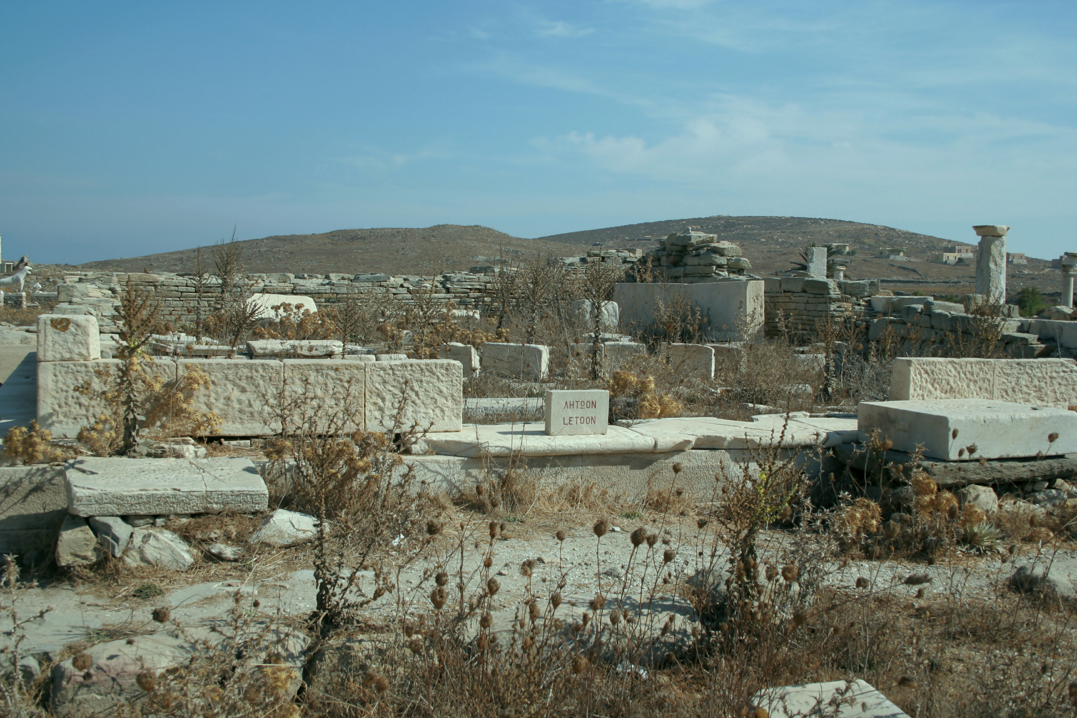 Temple of Leto at Delos, dating from circa 550 BC.Chrám bohyně Létó na Délu, z doby kolem roku 550 před n. l.